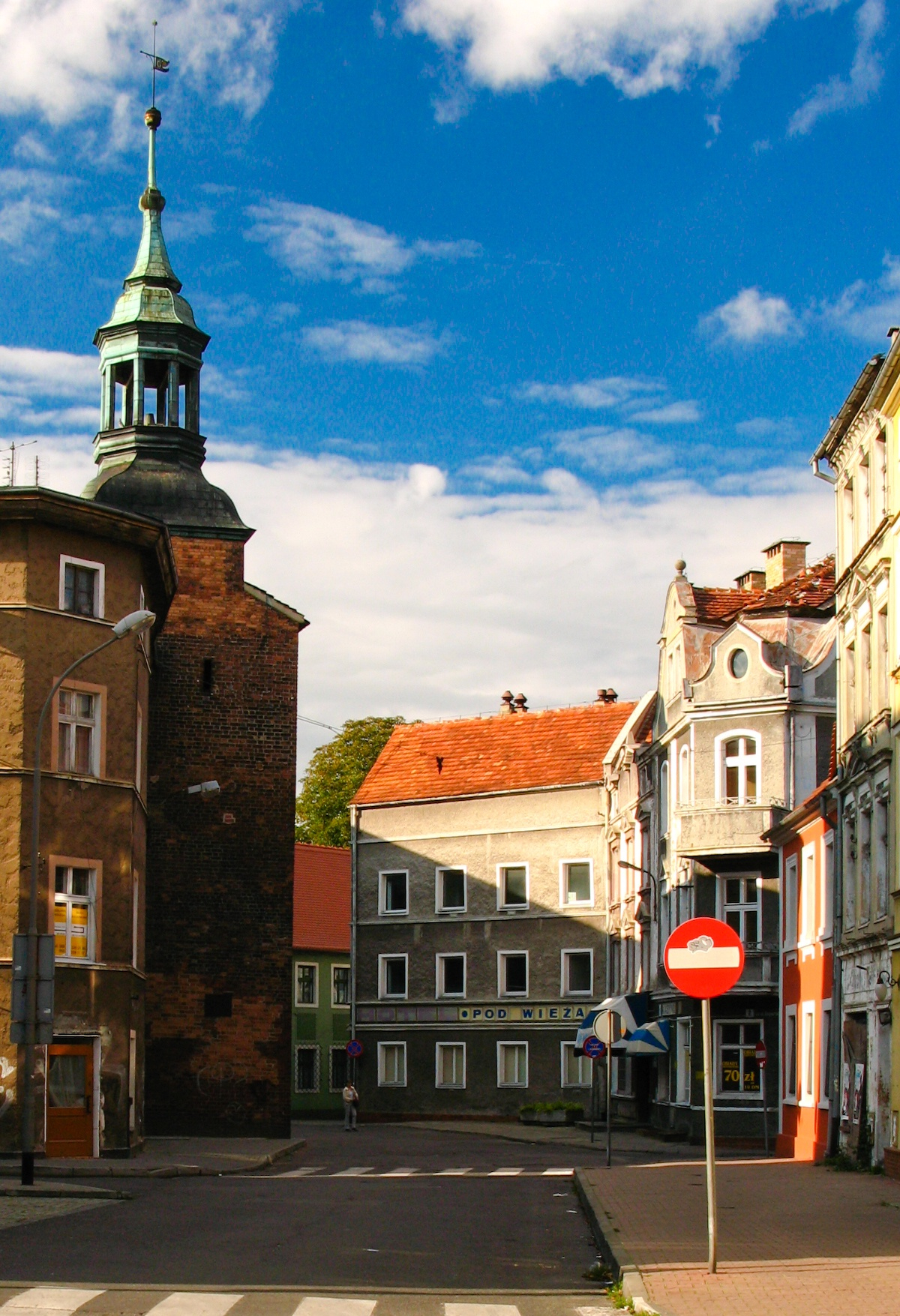 Famine Tower